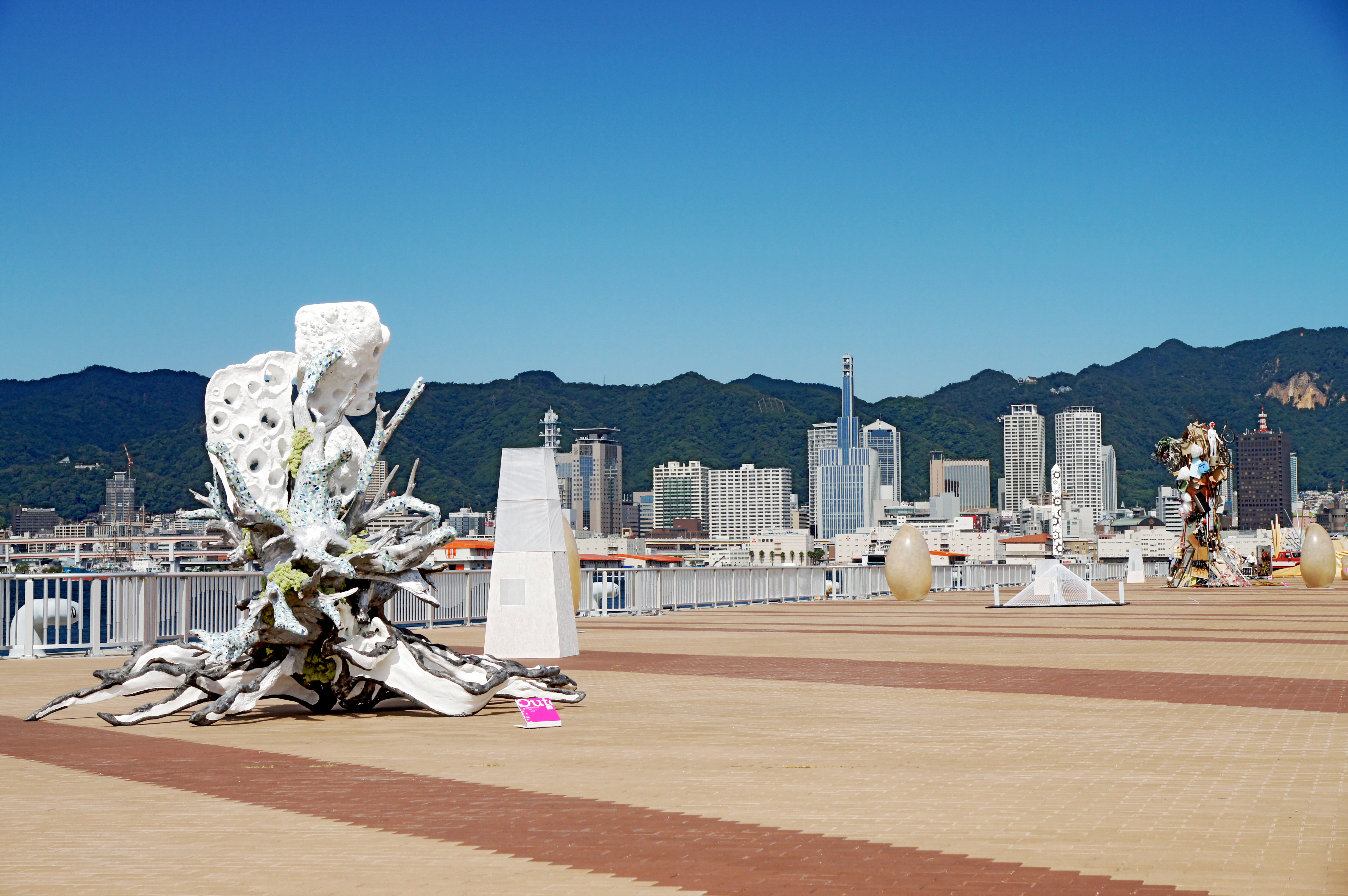 KOBE Biennale 2011 at Po-ai Shiosai Park in Kobe, Hyogo prefecture, Japan